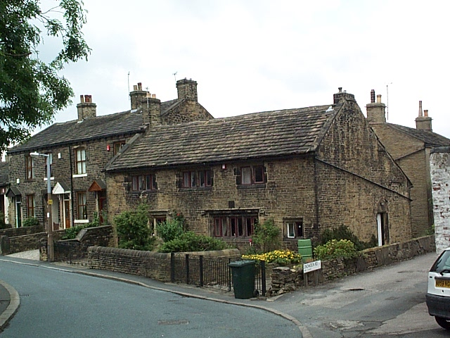 Seventeenth century former farm house, Snowden Road, Wrose, Shipley. Tucked behind Wrose Road's suburbia are a number of very old houses with the characteristic stone flagged roof. This one bears a date of 1616. Note the difference of height with the neighbouring property.